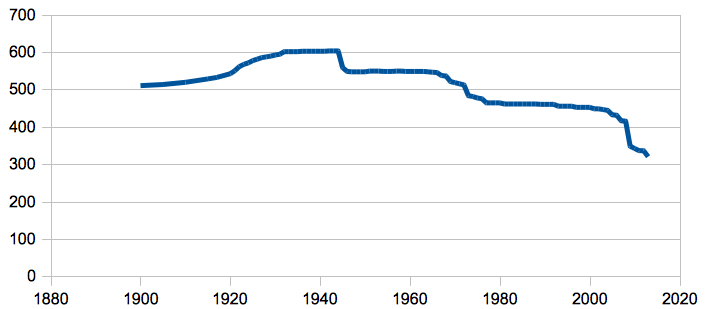 Number of muncipalities in Finland 1900-2013. Data source Kuntien ja kaupunkien lukumäärä 1900-2013 (XLS) : Suomen Kuntaliitto